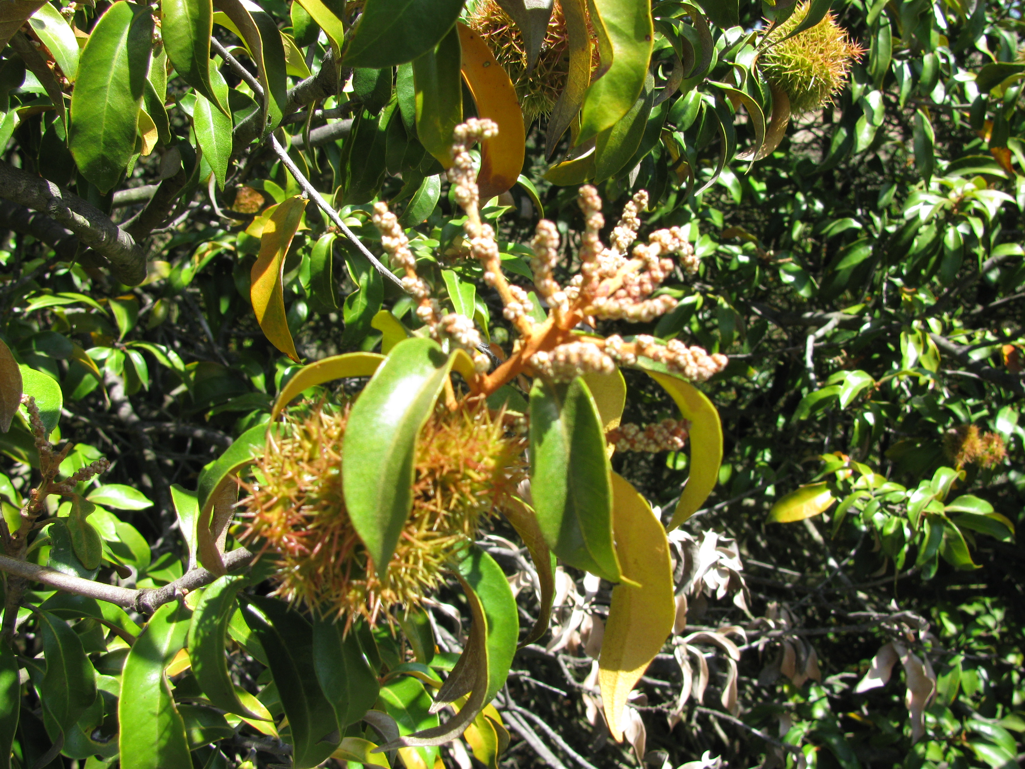 Chrysolepis chrysophylla (Golden Chinquapin). At the Huckleberry Botanic Regional Preserve, in the Berkeley Hills, Northern California.